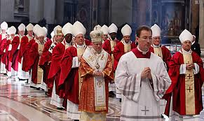 This is a picture of Catholic Cardinals at the Vatican.